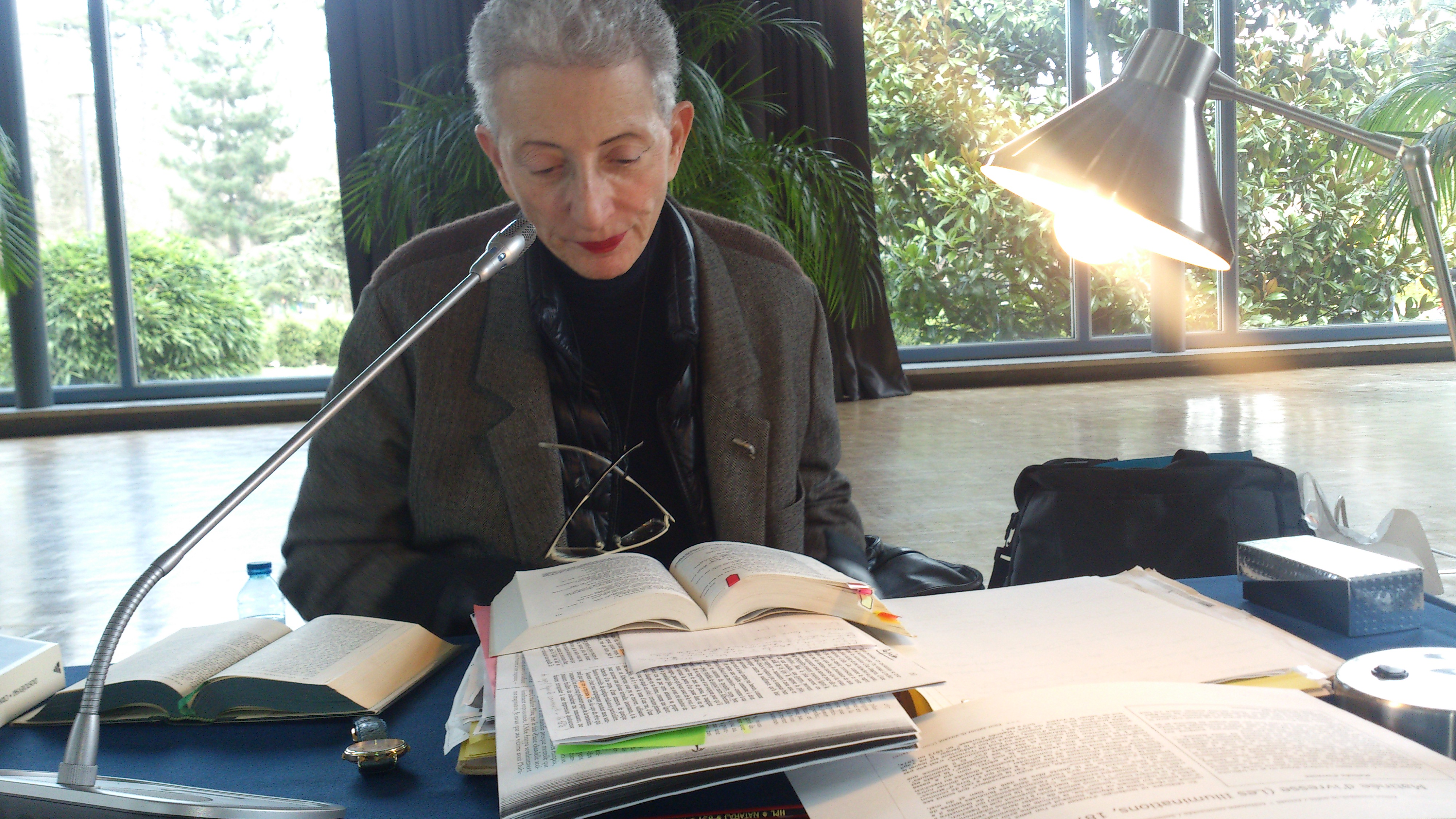 Hélène Cixous teaching at her seminar - Paris, Maison Heine